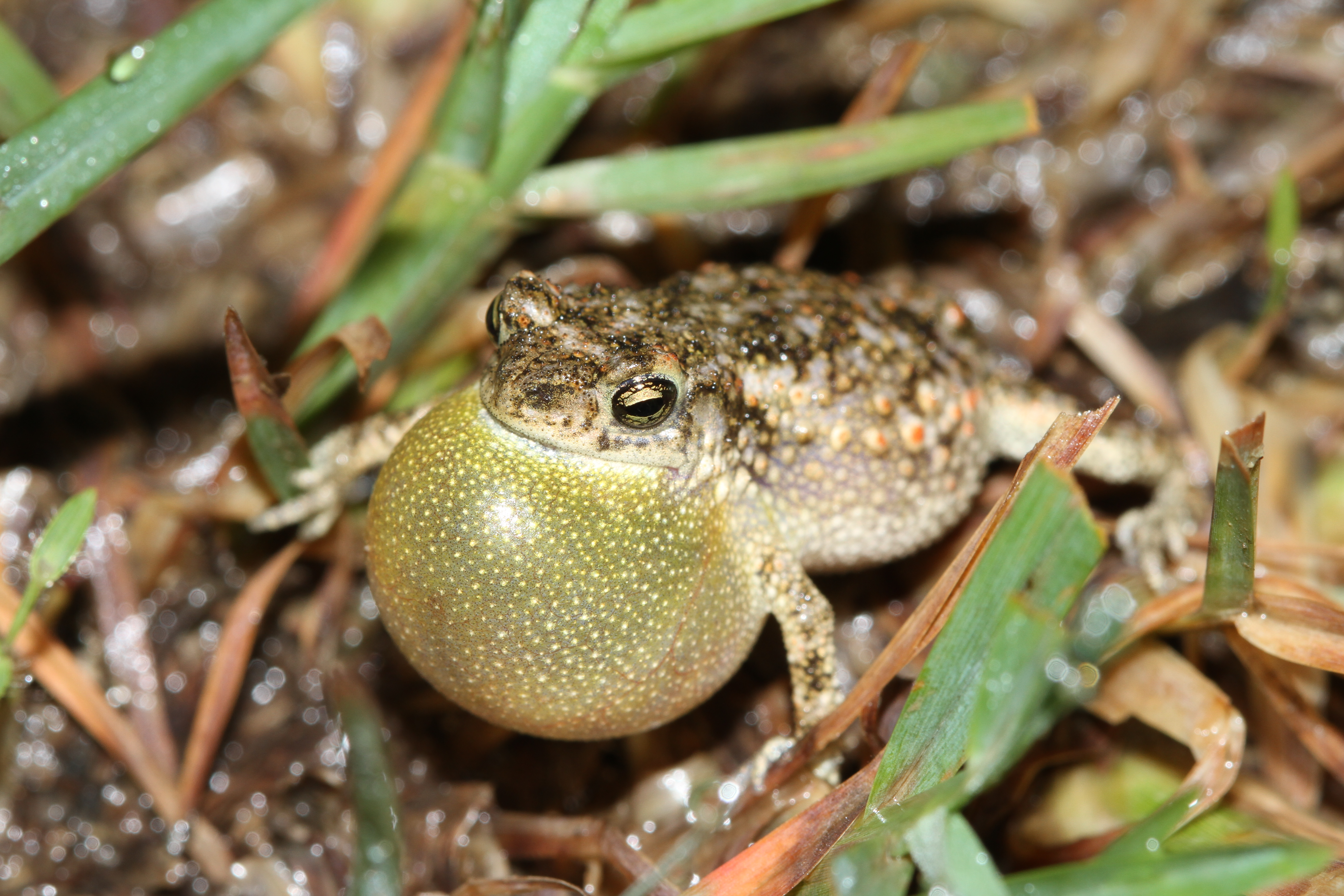 Duttaphrynus scaber, Schneider's (dwarf) toad, is an endmic frog from India.